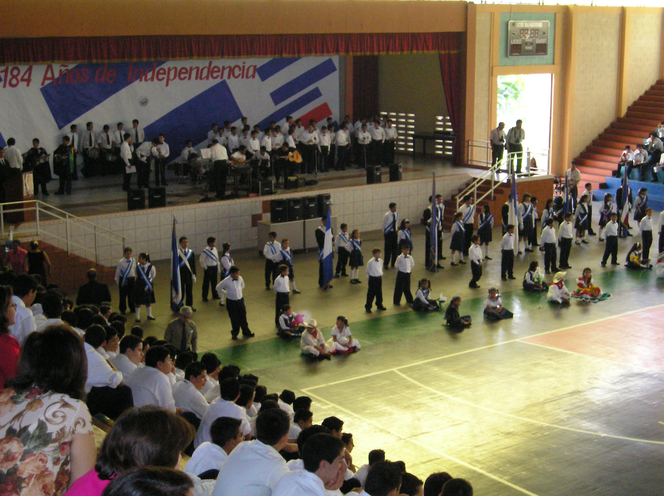 Celebration of 184 years of independence in El Salvador, at the Liceo Salvadoreño, a school in San Salvador